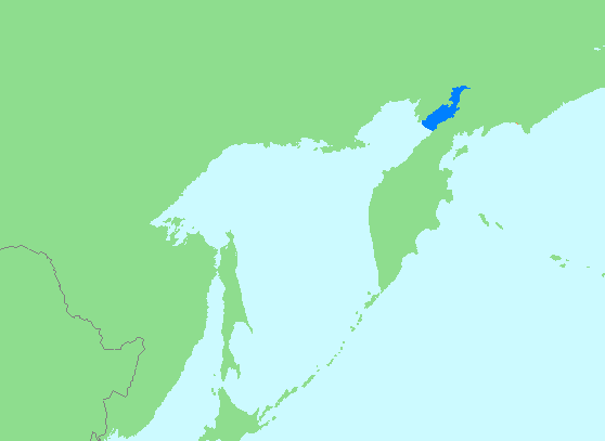 NOTE: Incorrect file title — is Penzhin Bay, not Gizjiga Bay. Location map of Penzhina Bay — in the northeastern Sea of Okhotsk. Located between the northwestern coast of Kamchatka Peninsula (Kamchatka Krai) and the Russian mainland (Magadan Oblast). Penzhina Bay is an upper right arm of Shelikhov Bay.